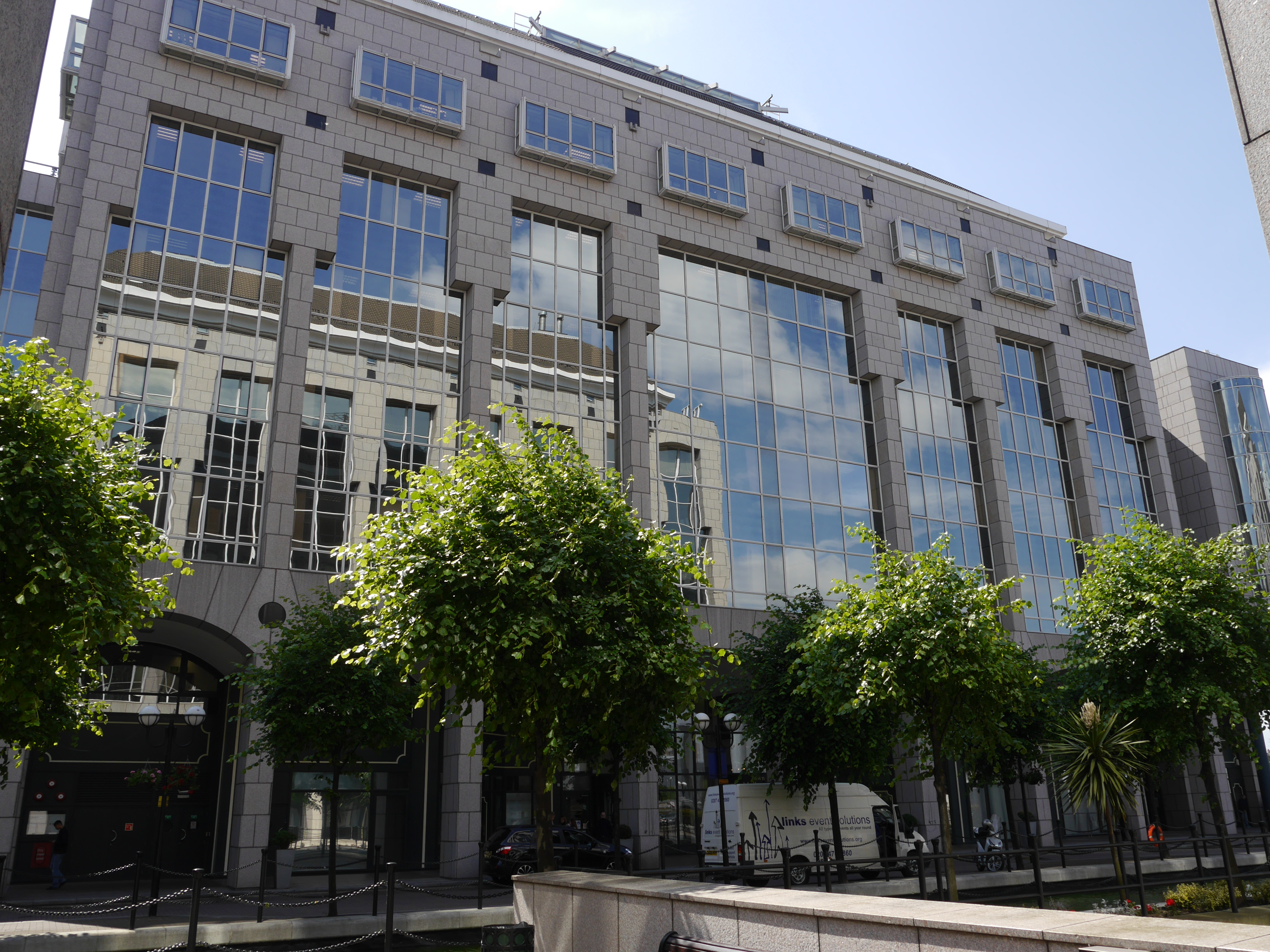 Mulberry Place, the town hall for the London Borough of Tower Hamlets, viewed from opposite the south eastern corner.